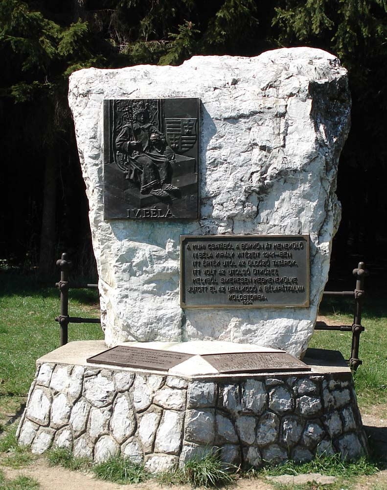 Béla the Fourth, Hungarian King. Relief in Bükkszentkereszt, near to Miskolc, Hungary